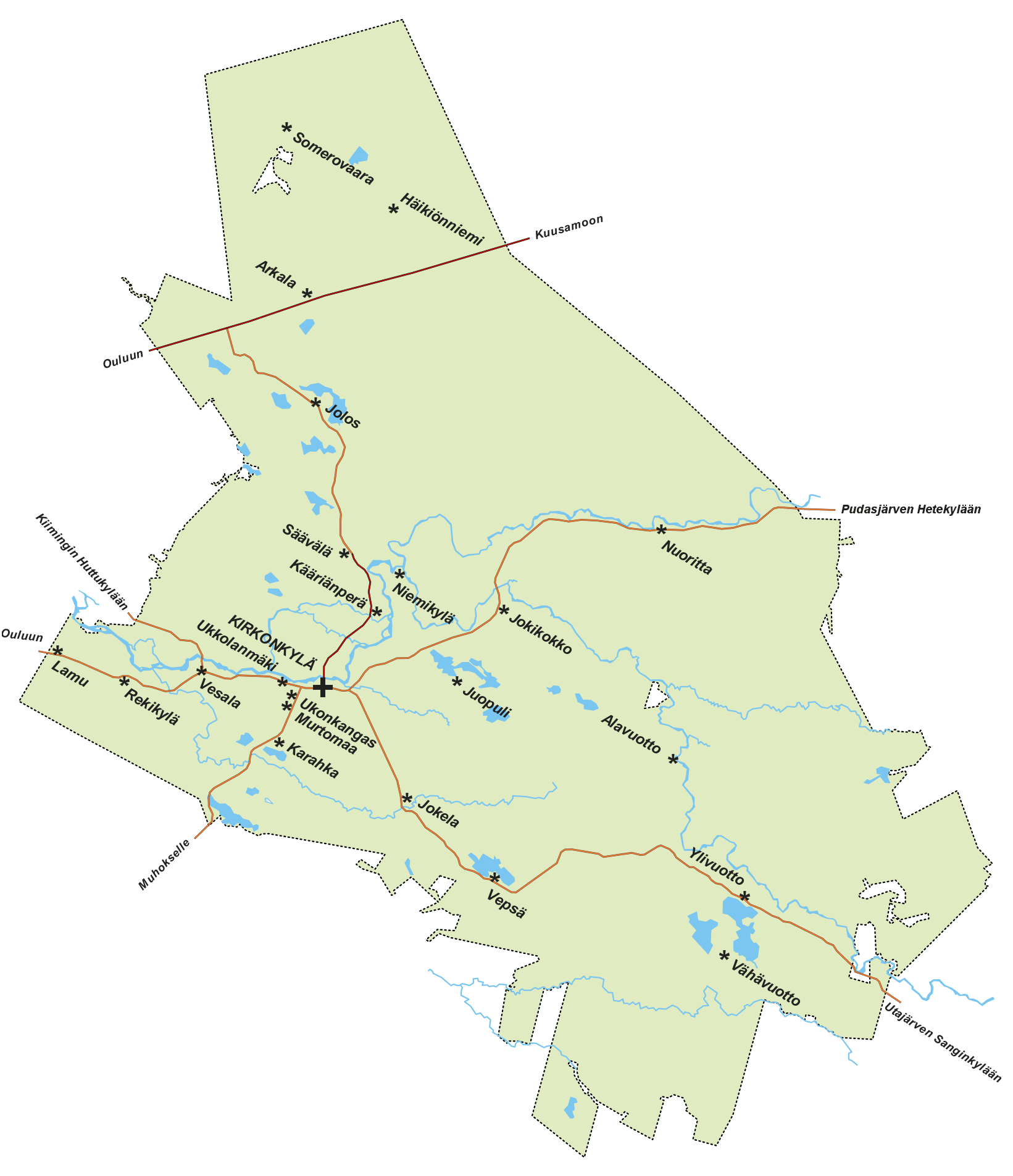 Villages of Ylikiiminki municipality, Finland. Created from a blank public domain Ylikiiminki map drawn by fi-Wiki User:Ningyou.